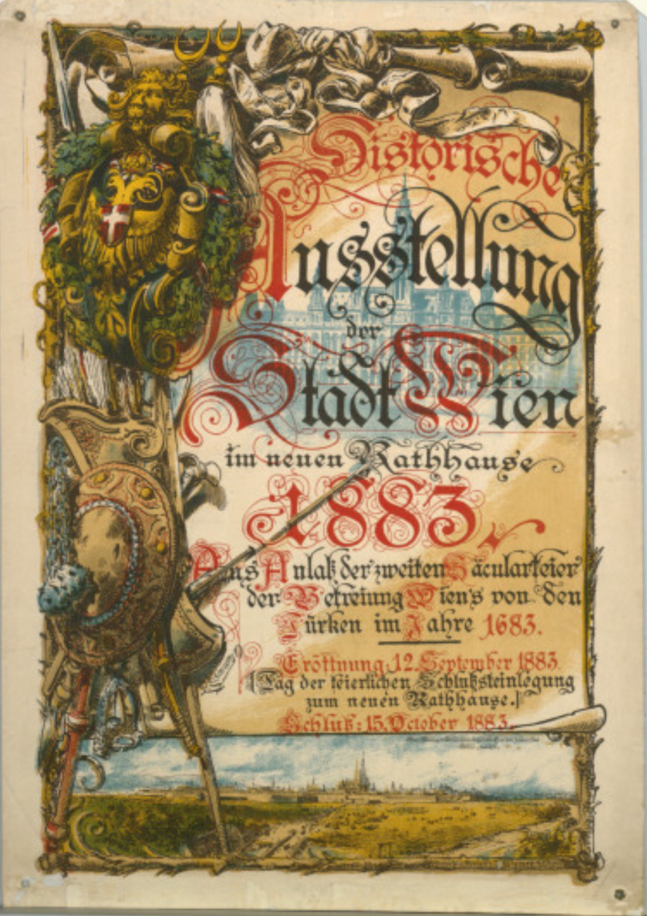 Historical Expo of Vienna 1883